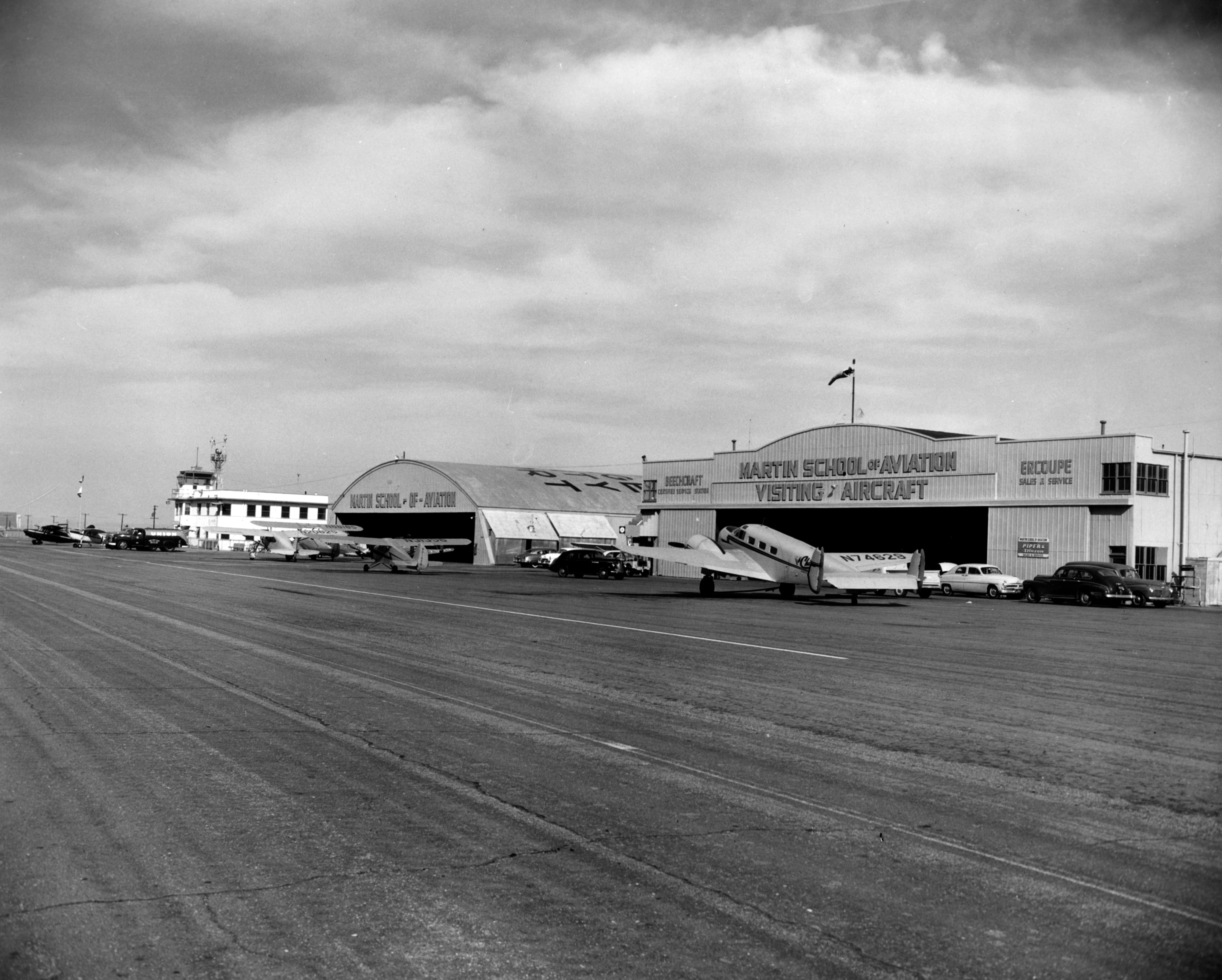 There are no known copyright restrictions on this image. All future uses of this photo should include the courtesy line, "Photo courtesy Orange County Archives." Comments are welcome after reading our Comment Policy .